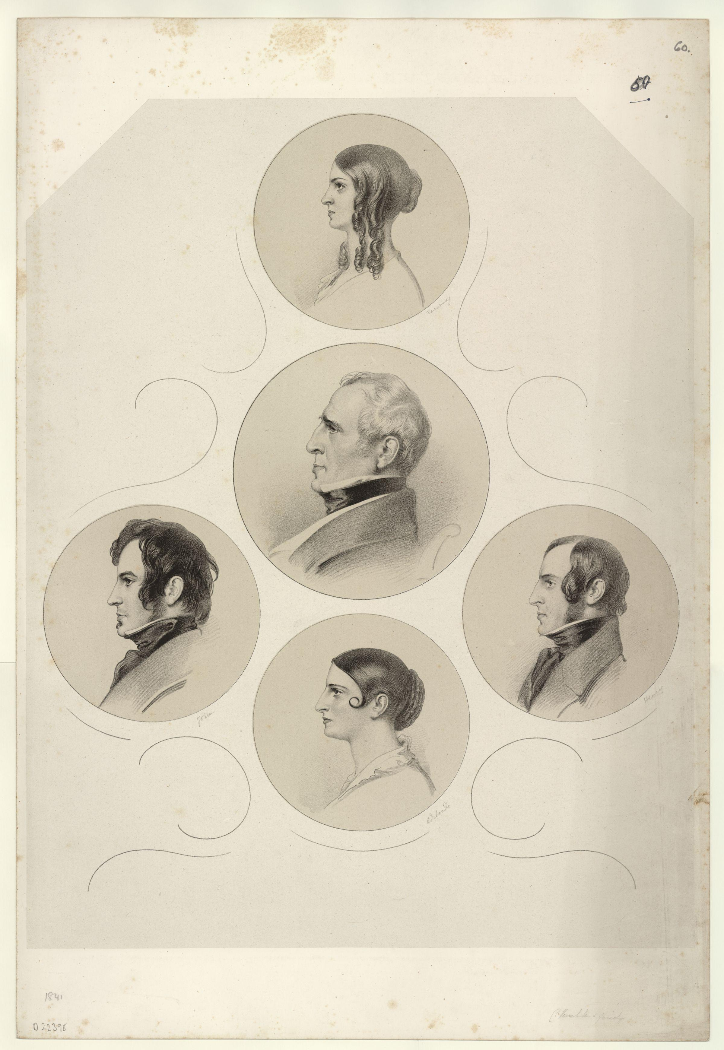 Charles Kemble; Adelaide Kemble; Frances Anne ('Fanny') Kemble; John Mitchell Kemble; Henry Vincent James Kemble, by Richard James Lane (died 1872), given to the National Portrait Gallery, London in 1956. All images in this batch have been confirmed as author died before 1939 according to the official death date listed by the NPG.